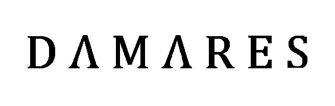 Logo Damares gospel singer.